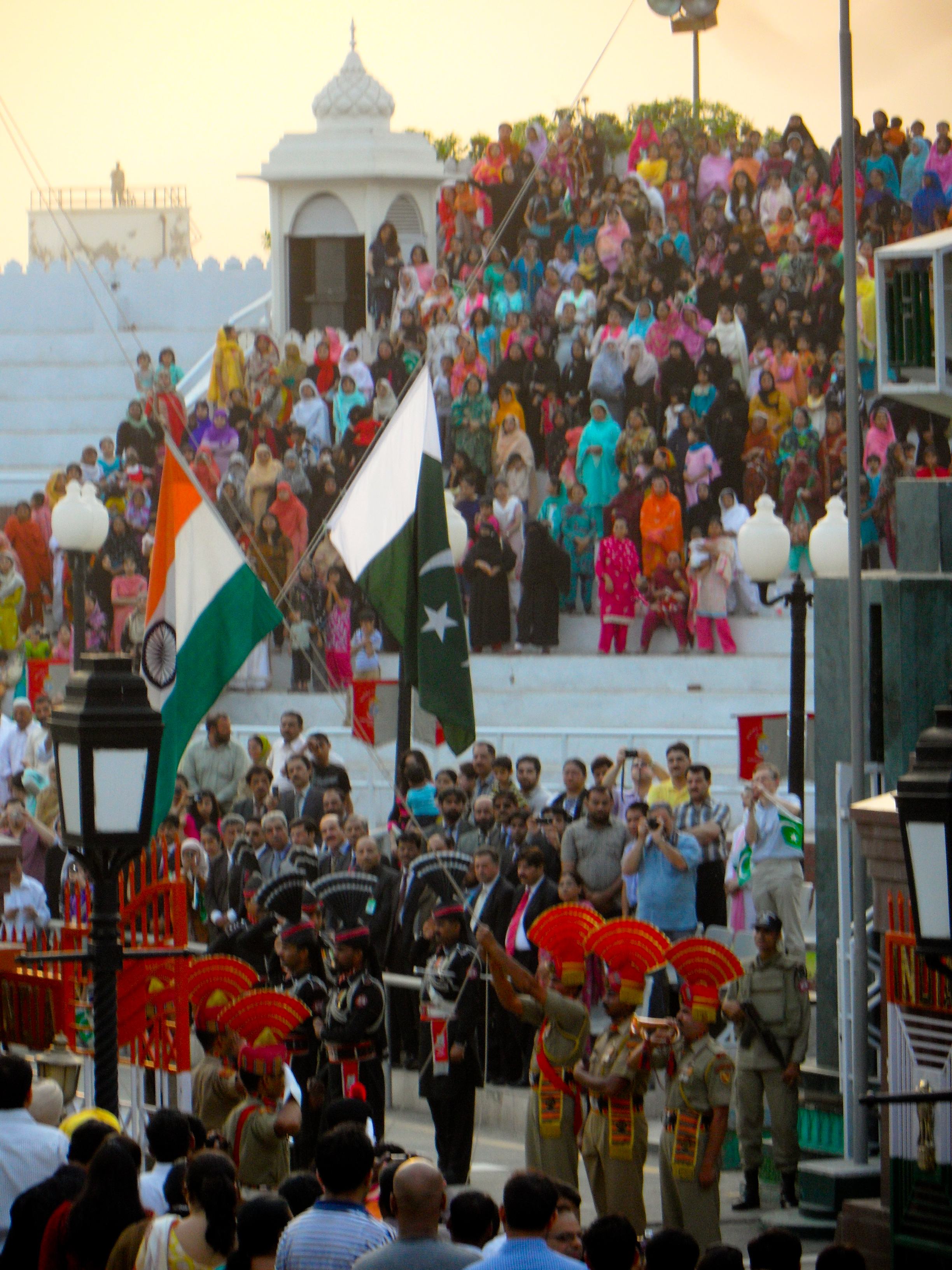 indian and pakistan BSF soldiers are taking down the border flags ceremonially; Wagah Border, Punjab, India